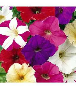 ਪਟੂਨੀਆ